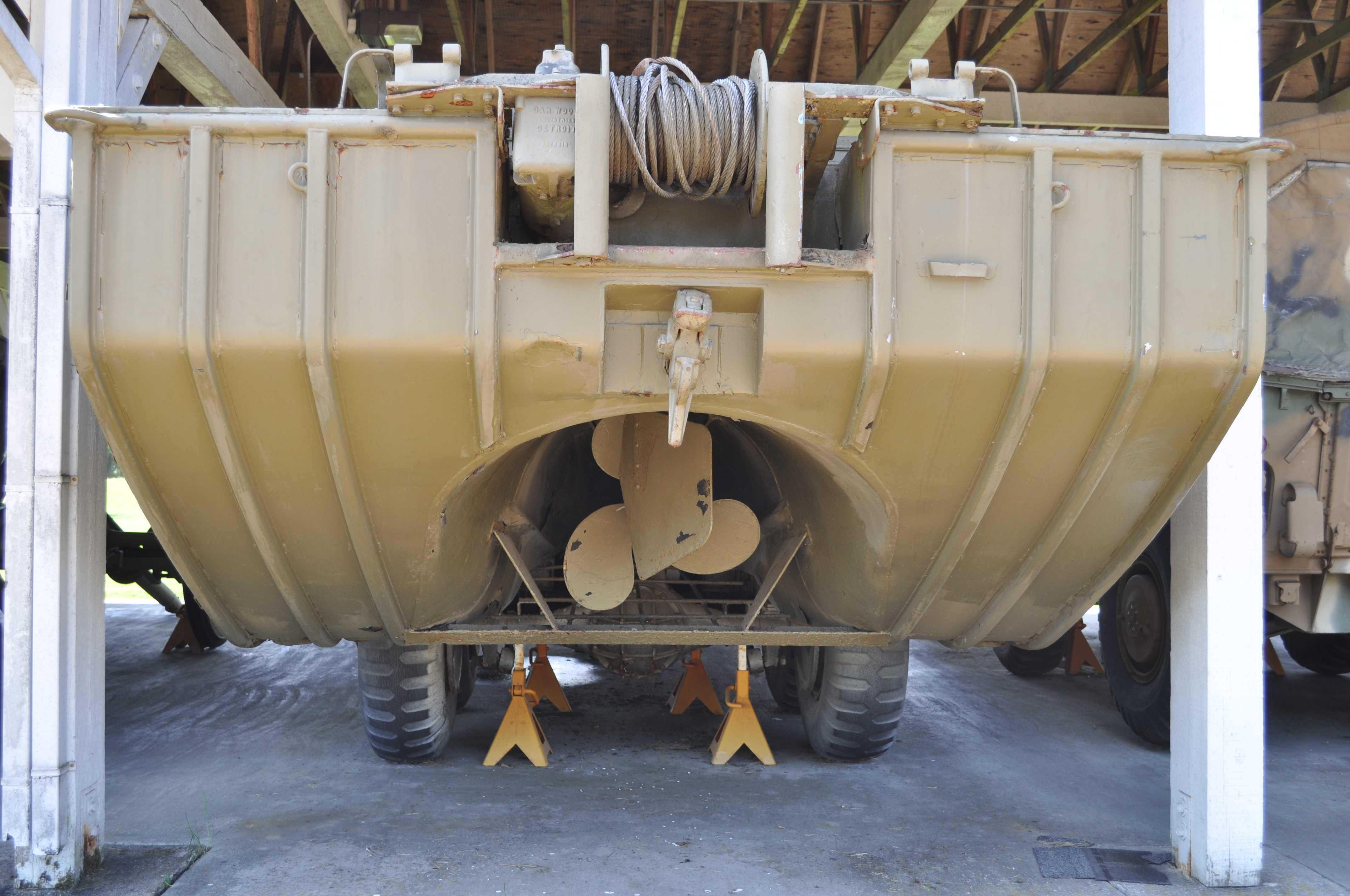 Aft (rear) view of DUKW, WWII-era US military amphibious vehicle. Fort Lewis Military Museum, Fort Lewis, Washington, USA.